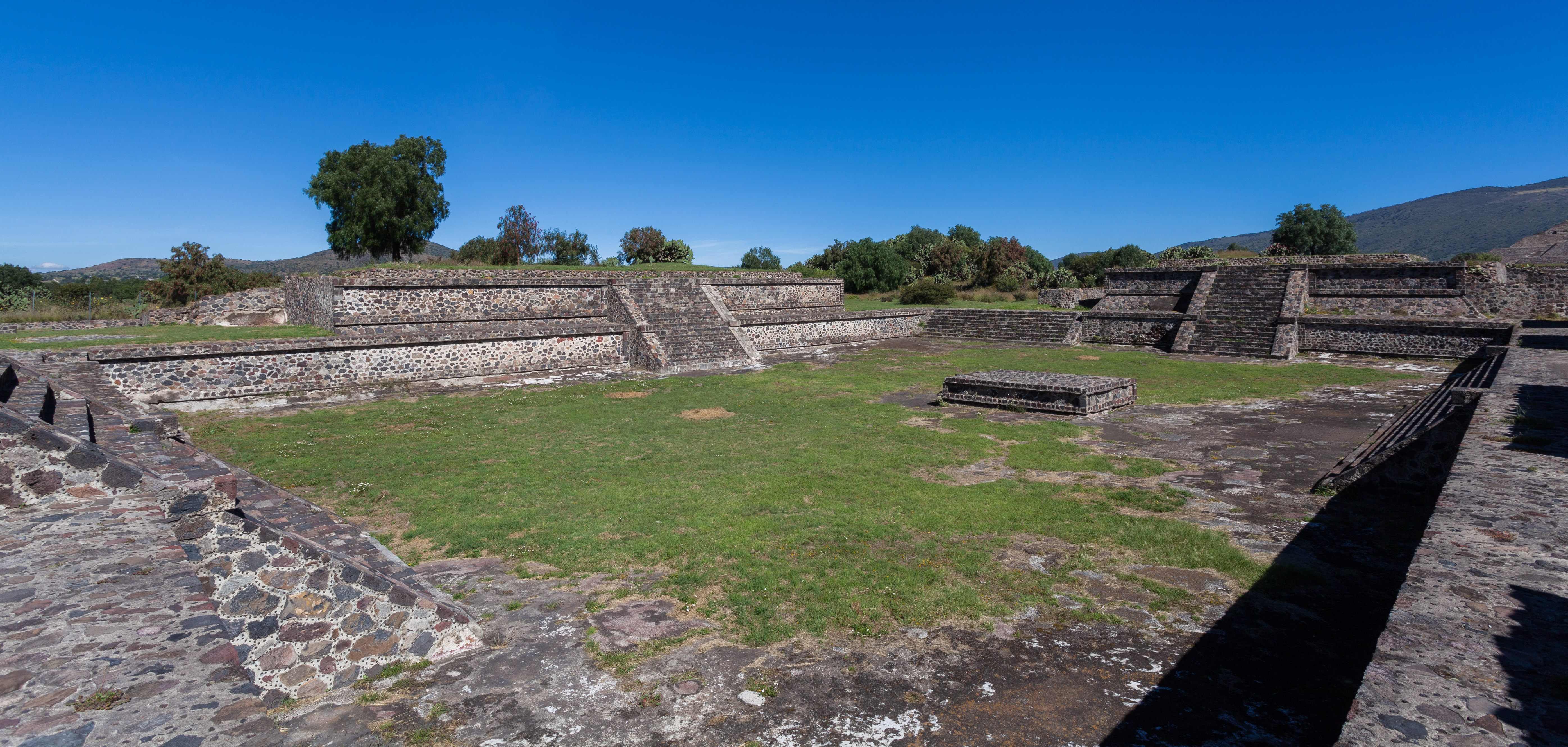 Teotihuacán, Mexico